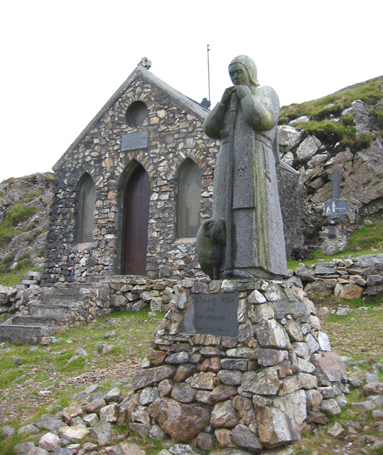 Chapel at Mám Éan pass. The Mám Éan pass (or Maumeen in English, meaning Pass of the Birds,) has a small chapel called Cillín Phádraig dedicated to St. Patrick. The saint is depicted with a ram in a statue by Cliodna Cussen, dated 1986. The inscription in Irish on the base reads Pádraig Mór na hÉireann, Aoire Máméan (meaning "Patrick the Great of Ireland: Shepherd of Maumeen".)